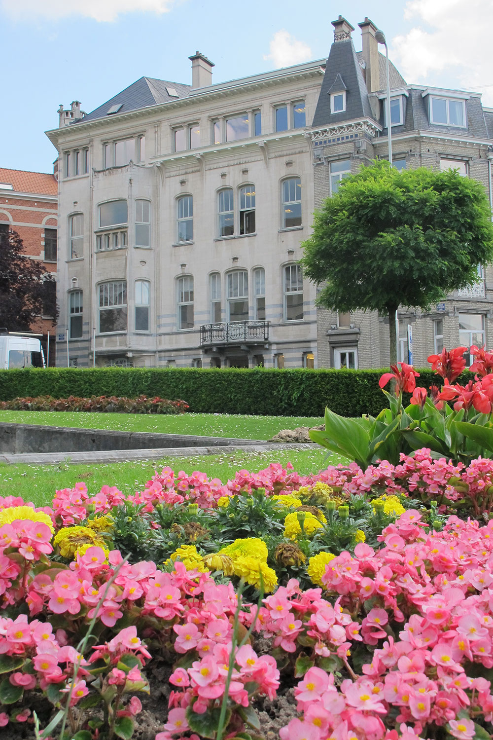 The façade of Avenue Palmerston 3, Brussels, home to the South Denmark European Office, Mid-Sweden and Mid-Norway european offices. Designed by the Belgian architect Victor Horta.